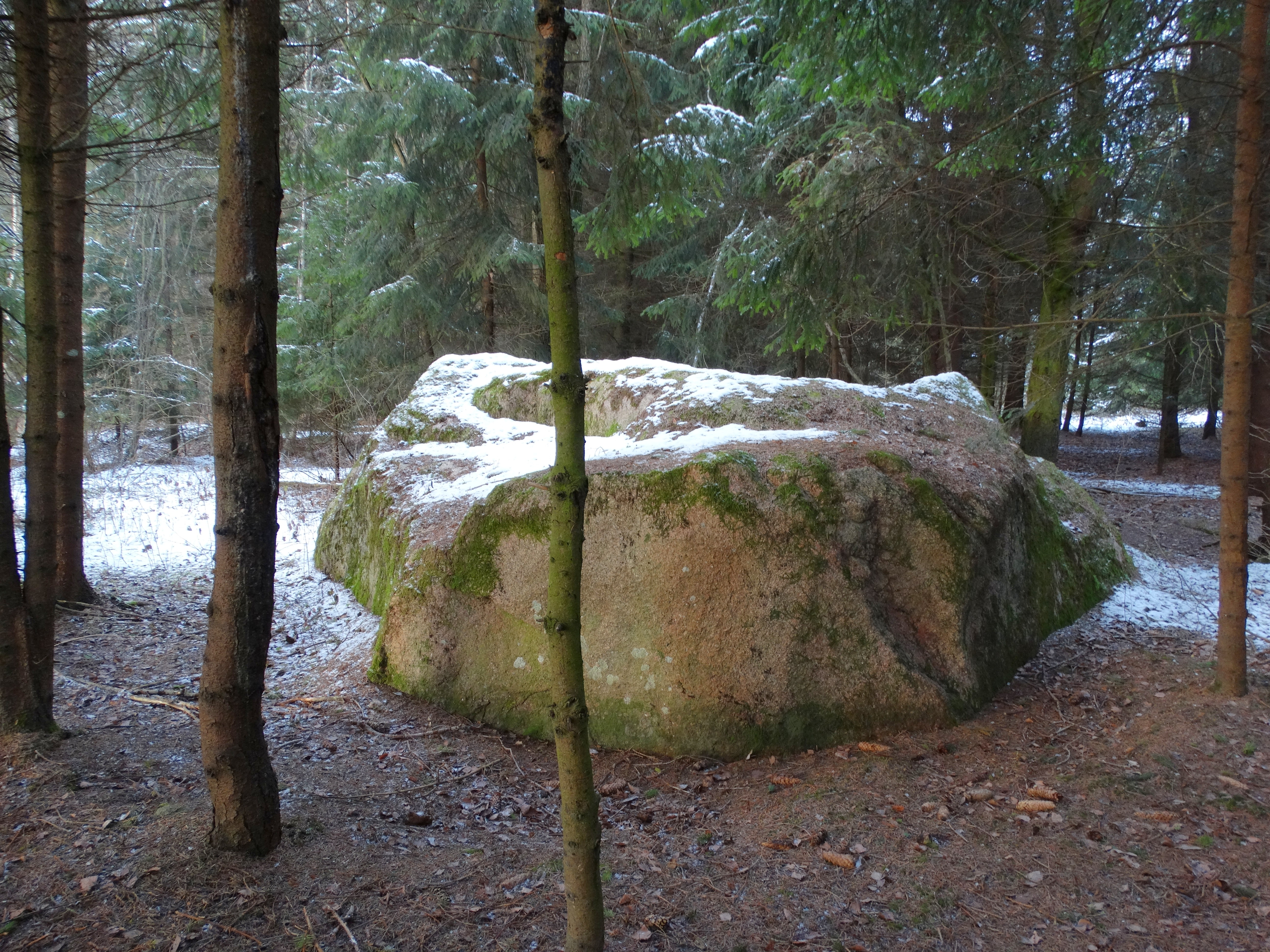 Kundročiai Stone, Pakruojis District, Lithuania